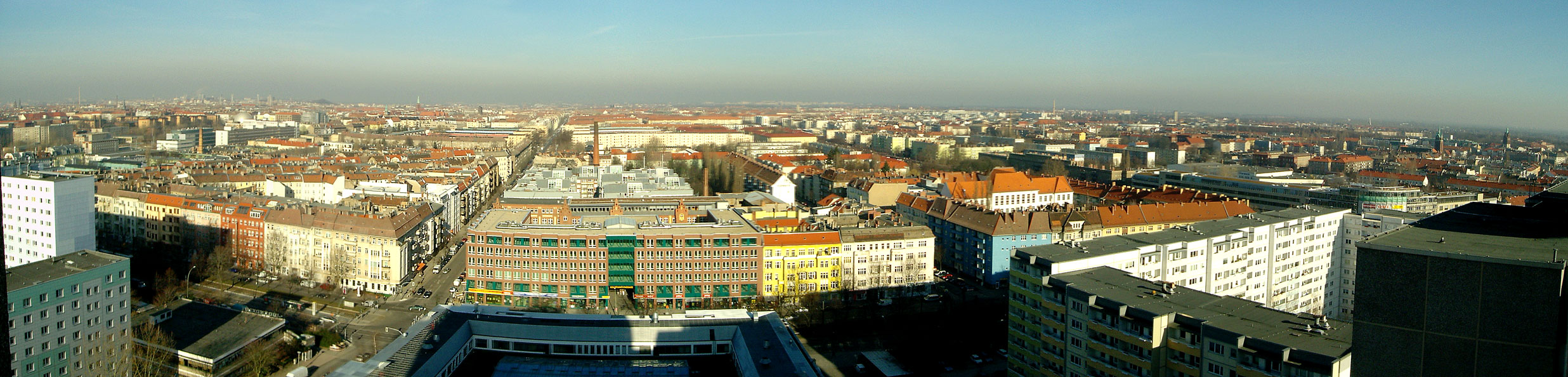 Wide angle photo from Berlin-Prenzlauer Berg. In the foreground you can see the Greifswalder Straße north from the S-Bahn station. View to west